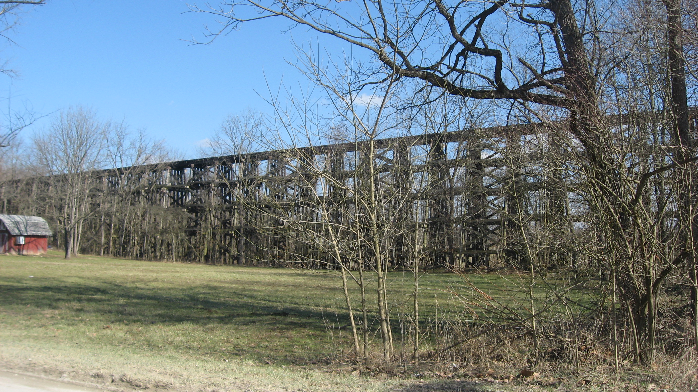 Western side of the Illinois Central Railroad trestle that spans an unnamed stream between Victor Pike and Clear Creek at Victor in Indian Creek Township, Monroe County, Indiana, United States. Built in 1906, it is part of the local Victor Oolitic Stone Company Historic District.